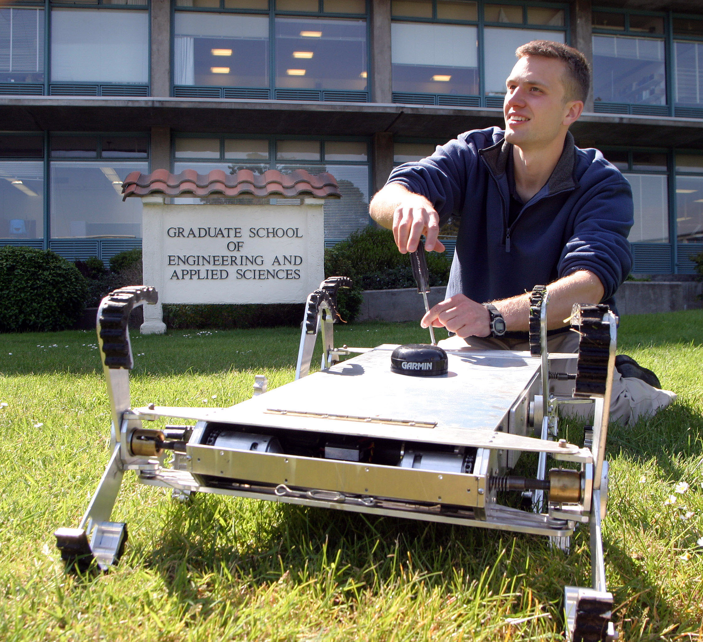 Monterey, Calif. (April 27, 2006) - Combat Systems Sciences and Technology Program Naval Postgraduate student Ensign Tom Dunbar, works with an autonomous robot originally designed to maneuver in agricultural settings. The autonomous robot, dubbed AGBOT, has been modified though to conduct its operations in the surf zone. – U.S. Navy photo by Javier Chagoya (RELEASED)